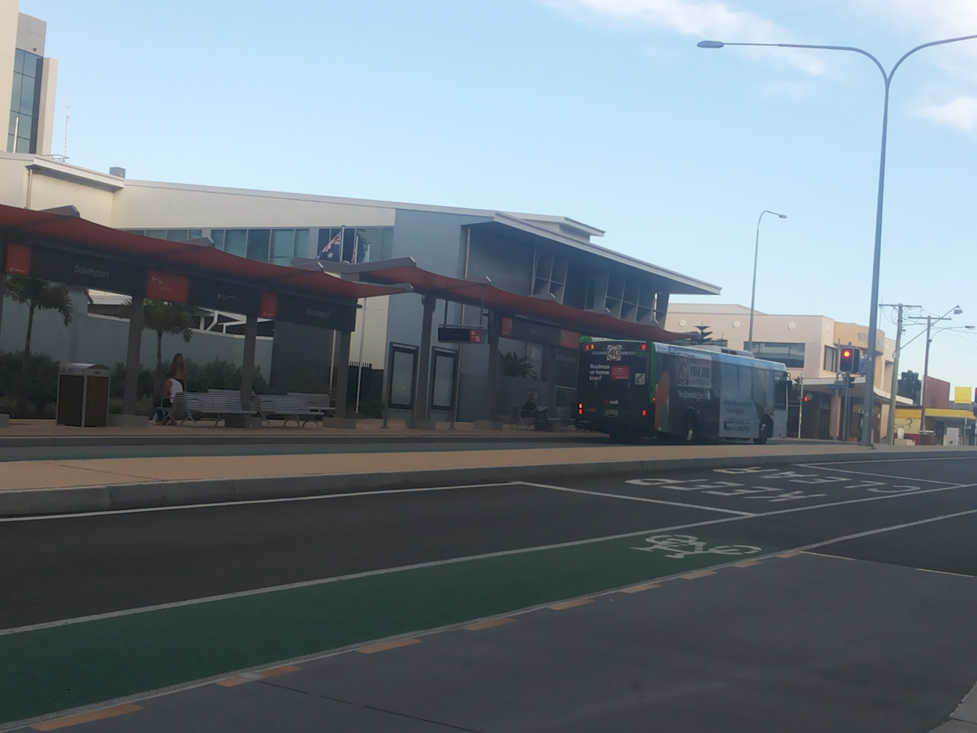 Southport Bus Station, March 2015